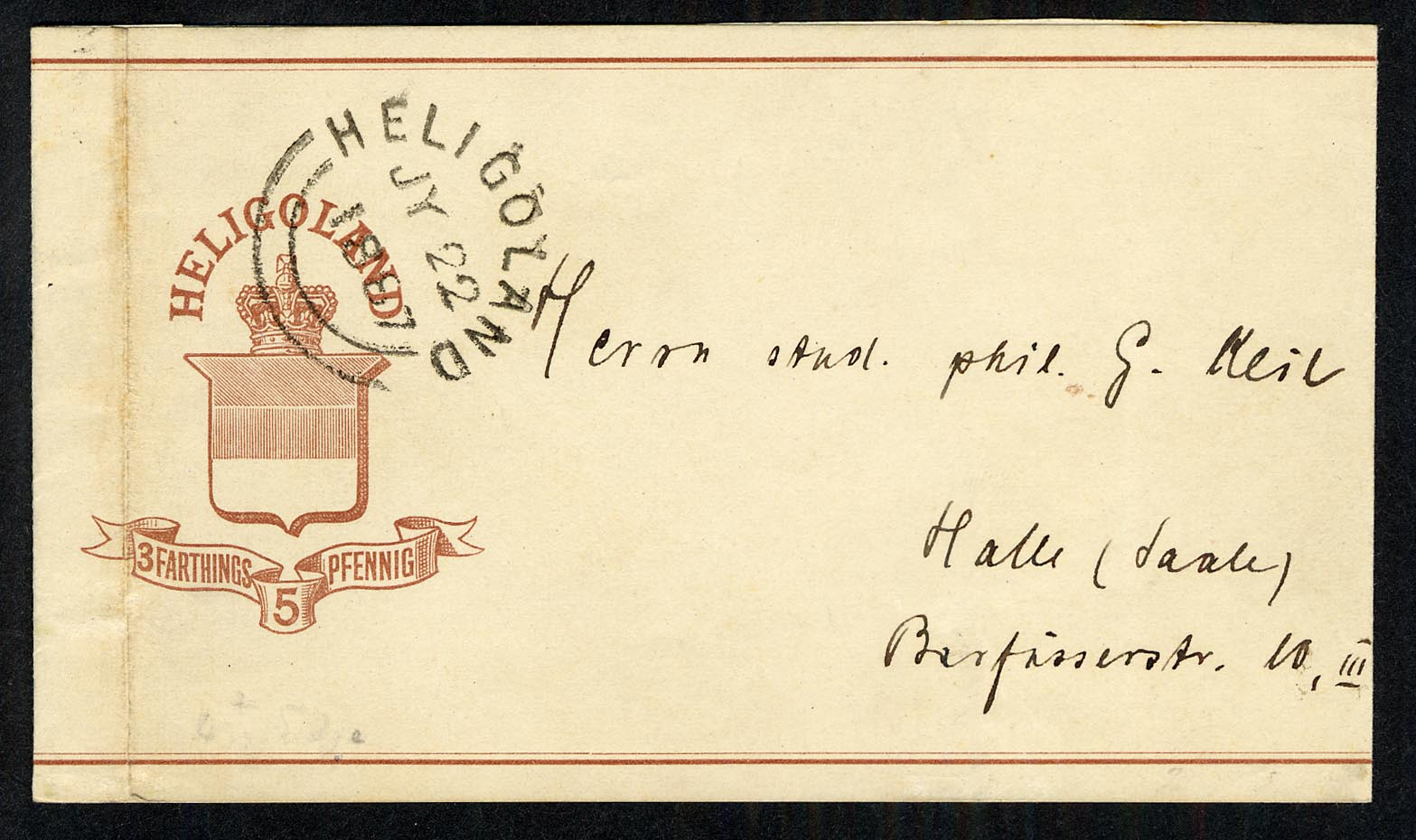 Heligoland 1887 3 farthings / 5 phennig newspaper wrapper.